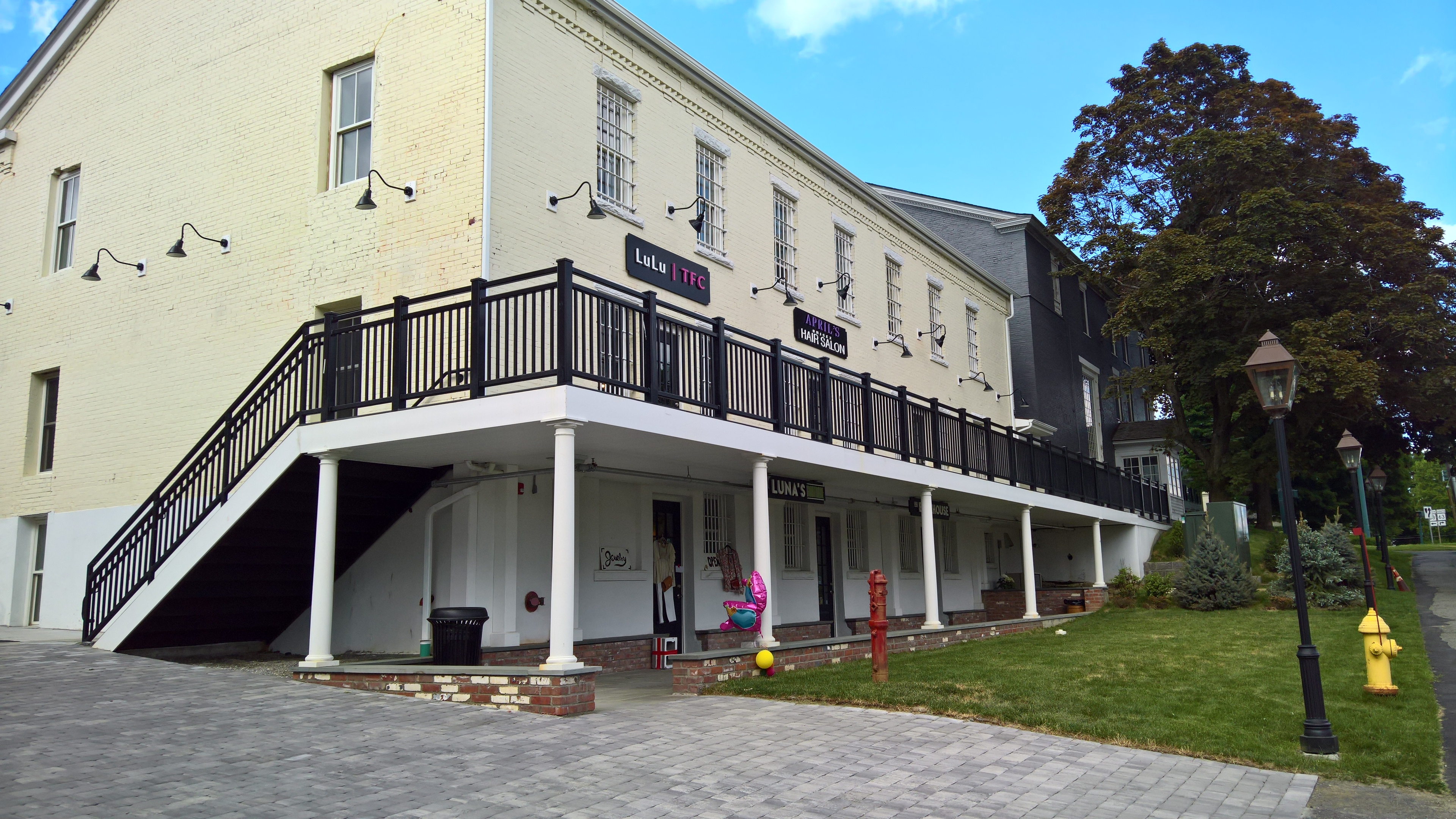 This is the exterior walkway designed by Milton Gregory Grew, AIA, architect on the south side of the Old Litchfield County Jail providing access to businesses.